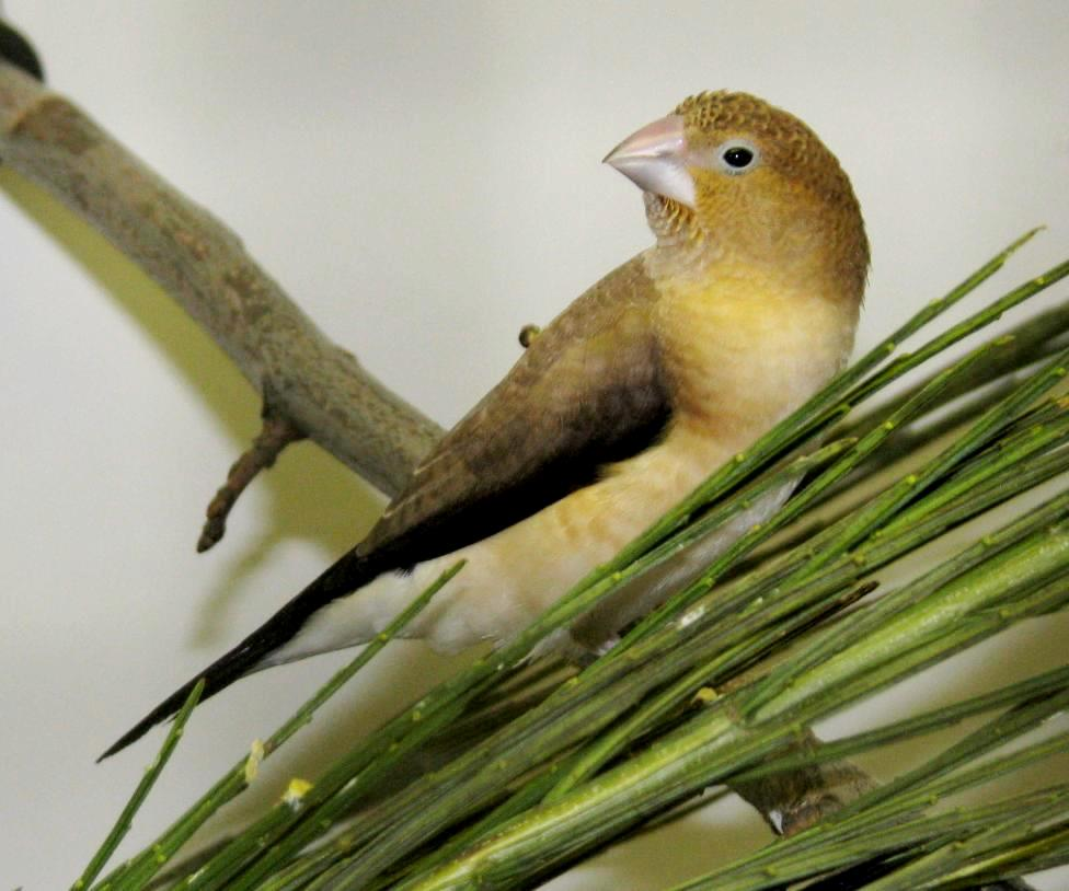 African silverbill